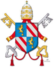 Coat of arms of Pio IX, Pope.